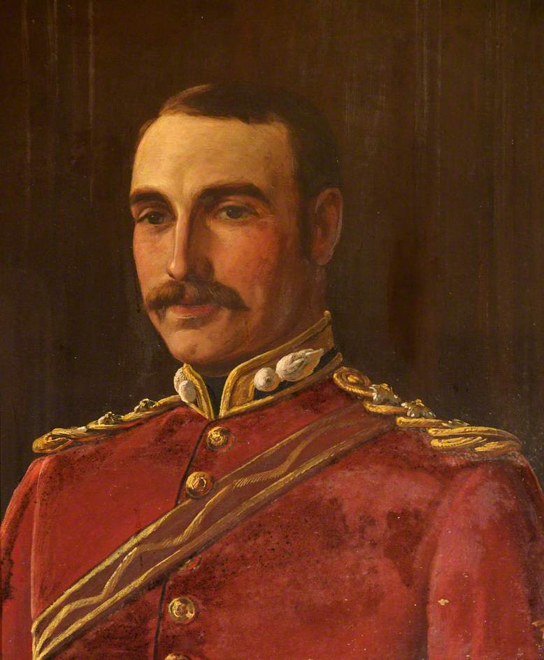 Art UK